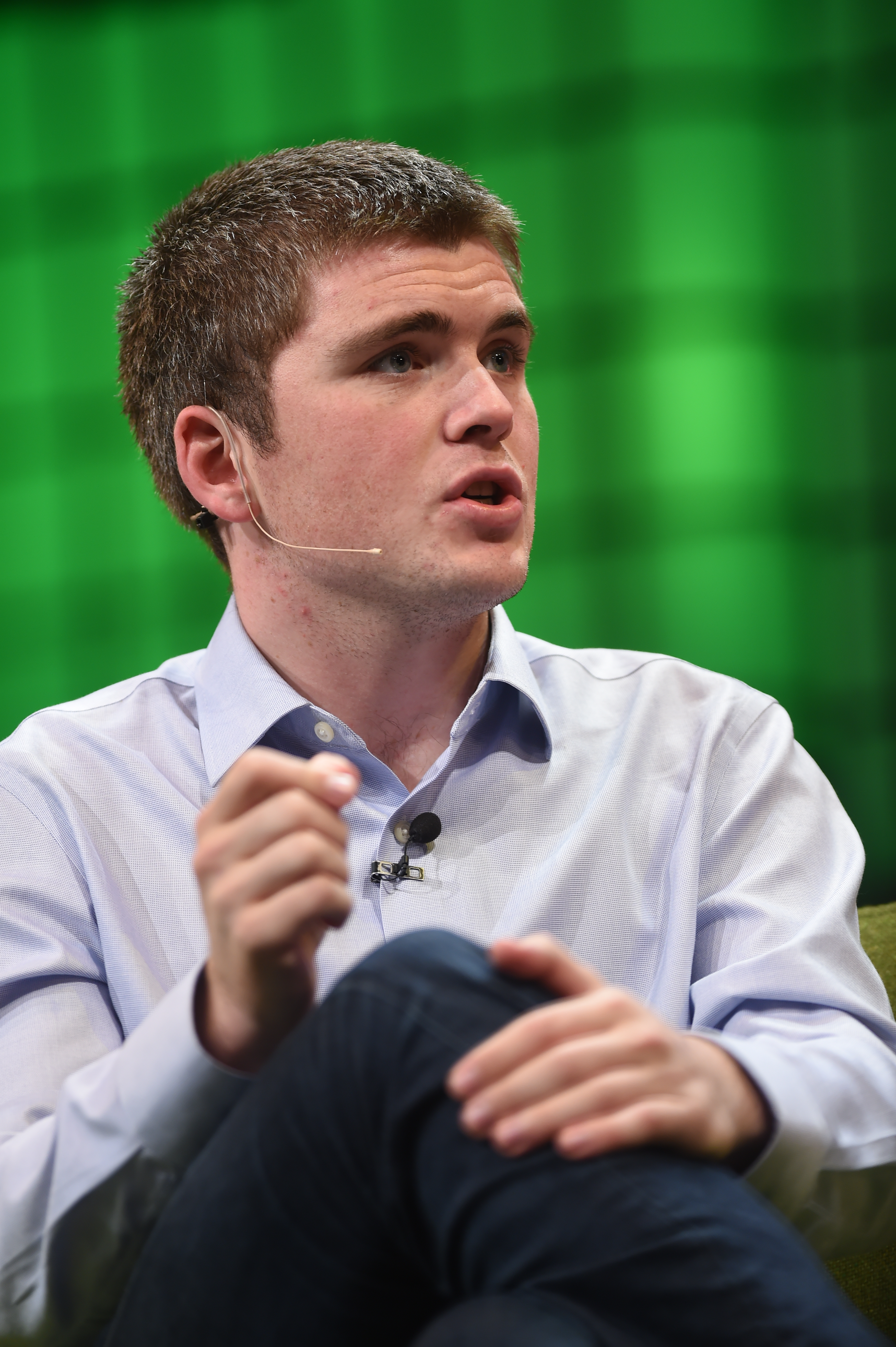 John Collison at the Web Summit